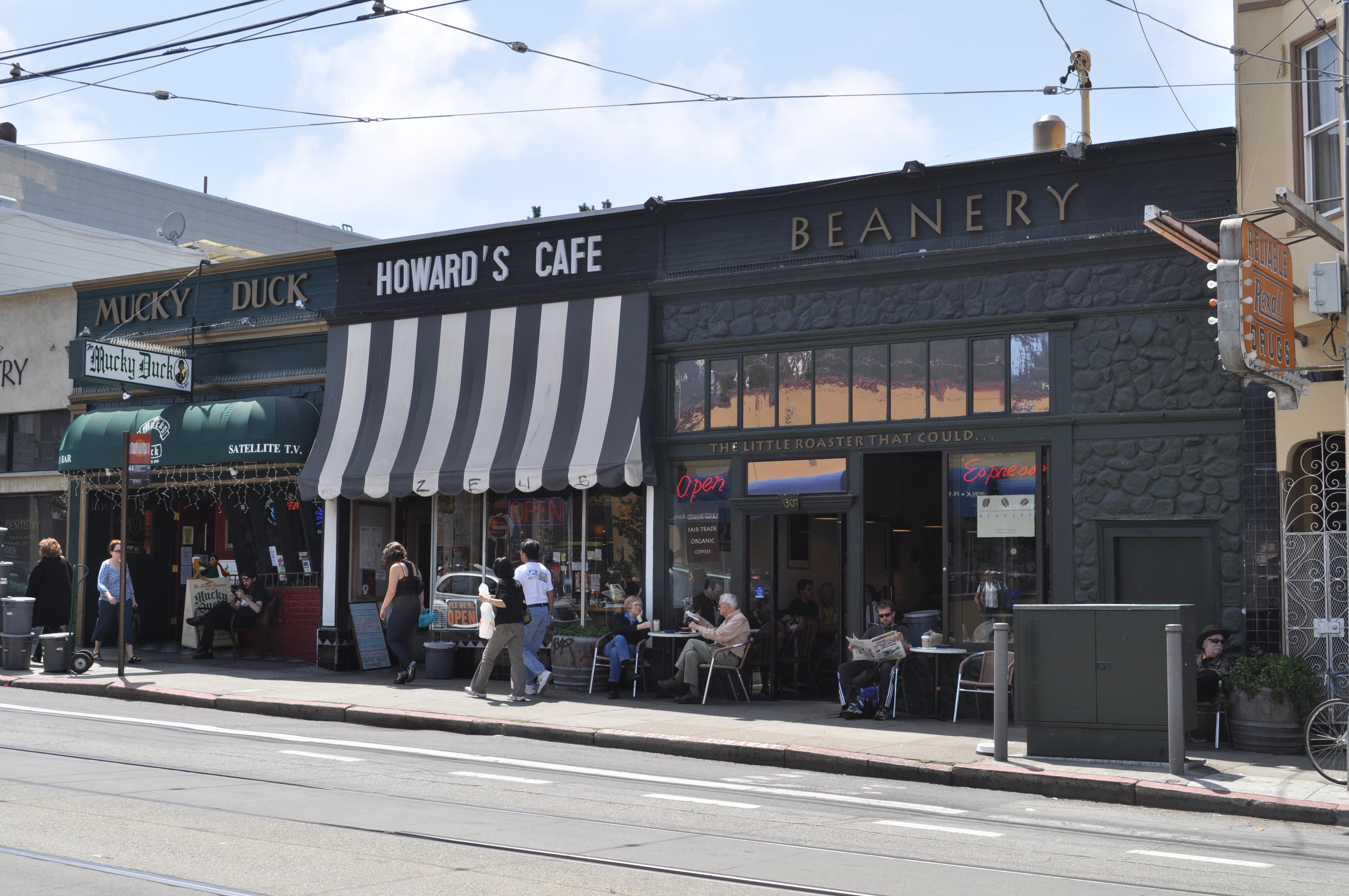 Shops on Ninth Avenue in the Sunset District, San Francisco, California, USA.